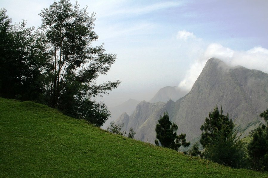 Taken from world's highest tea plantation Kolukkumala